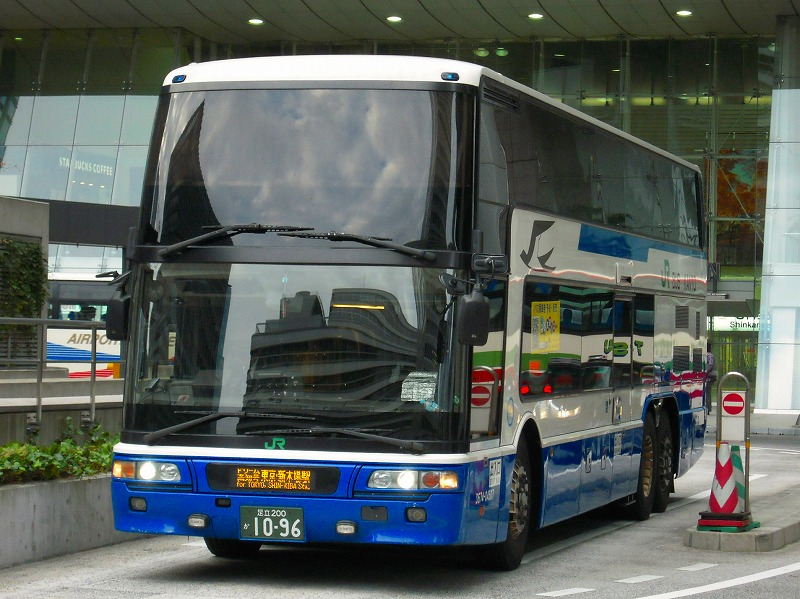 JR bus Kanto Highwaybus "Dream Kochi"(Tokyo-Kochi) Mitsubishi Fuso Aero King(MU612TX)